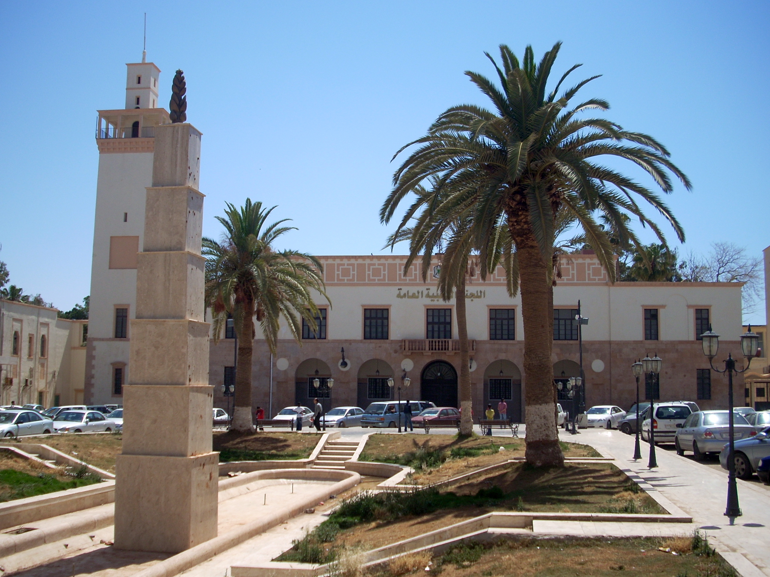 The former General Peoples Congress Building on August 9th Square in central Benghazi (Maydan al Khaalisa). The building was originally the colonial El Manar Palace, and later part of the University of Libya campus. See also (an image of the square and palace in the 1930s): File:Piazza 28 Ottobre,Bengasi.jpg.